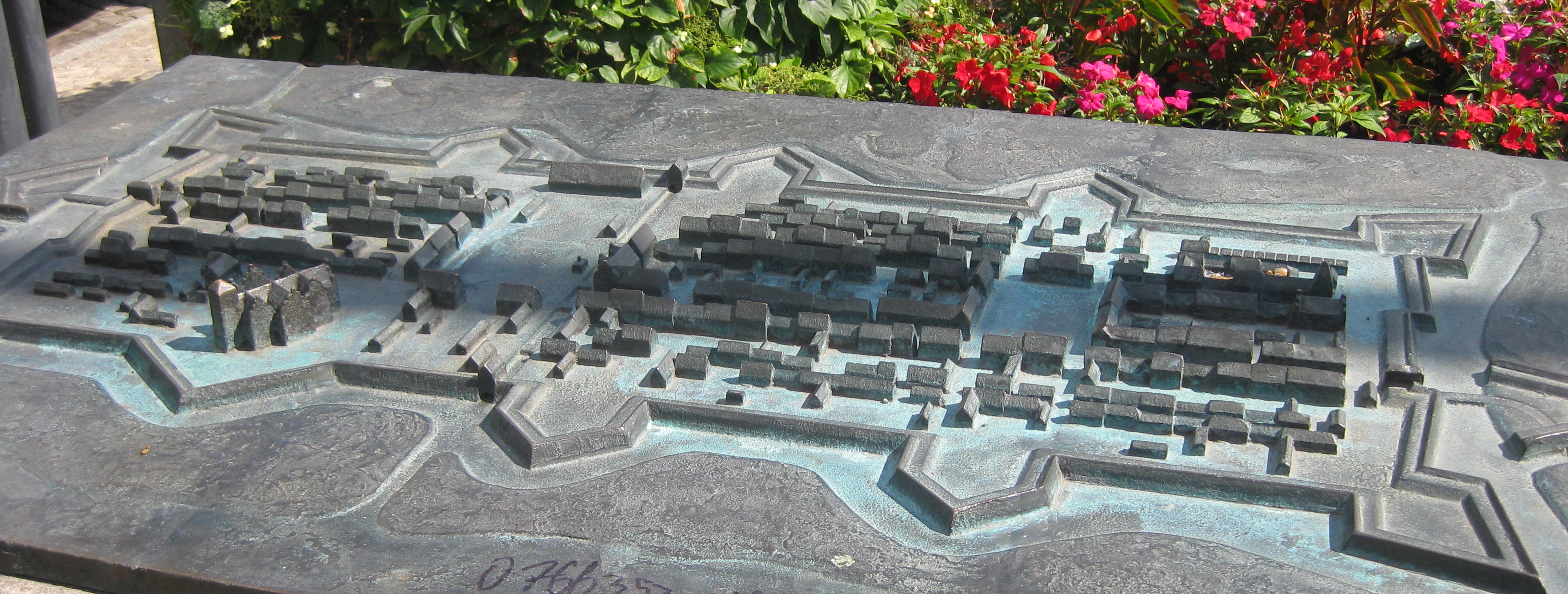 Model of old Kristianstad at Stora Torg